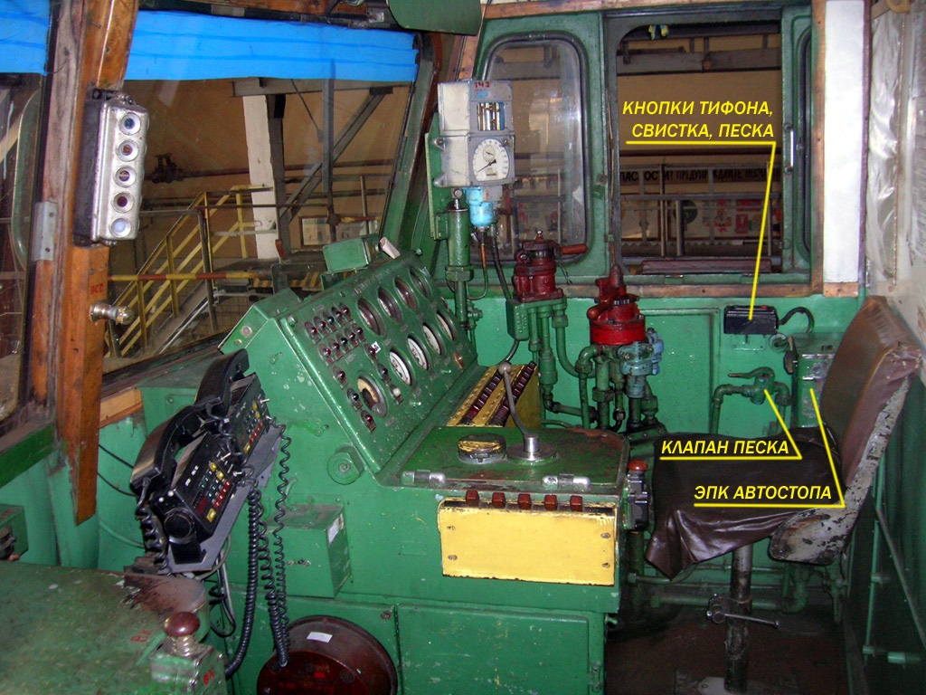 Cab of electric loco VL80K, Ukraine